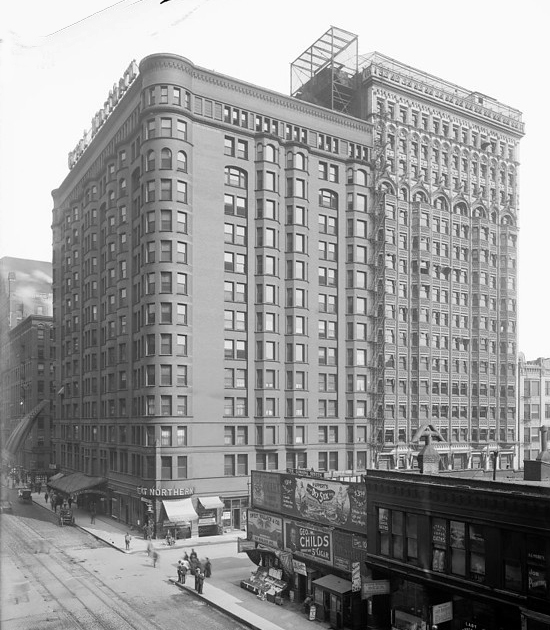 Photograph of the Great Northern Hotel, Chicago, 1900. J. Howard Moore read "Why I Am A Vegetarian" at the hotel on March 3, 1895.